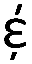 An example of a variation of the ampersand symbol, comprising a Greek epsilon with vertical marks above and below the letter (a broken vertical slash). This variation is often used instead of an epsilon with a full vertical slash for legibility. The symbol is derived from the Latin word "et" meaning "and". This variant is nearly absent online, where the normal ampersand (&) dominates, but common in shorthand or handwritten notes.